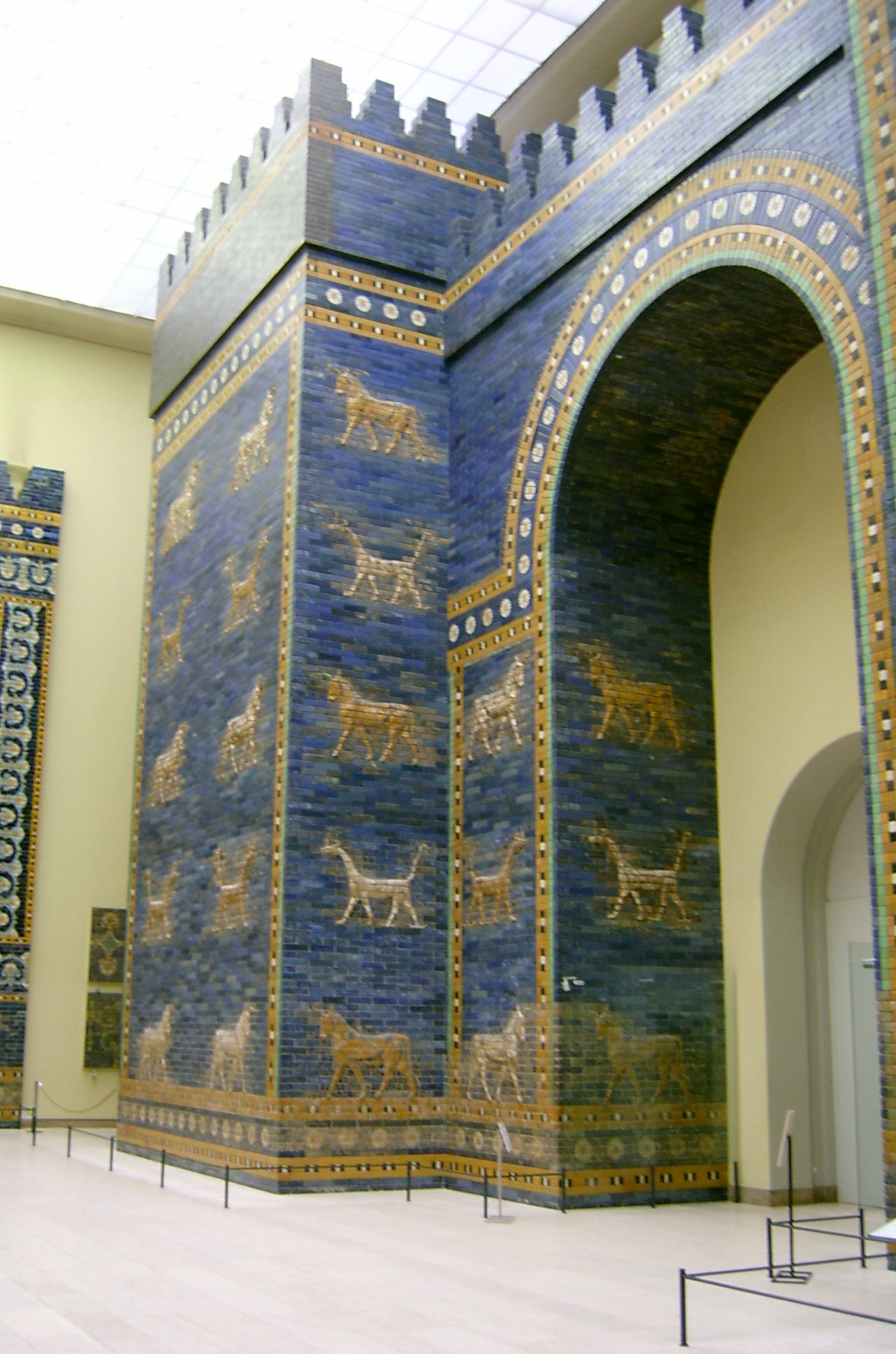 Taken at Berlin's Pergamonmuseum